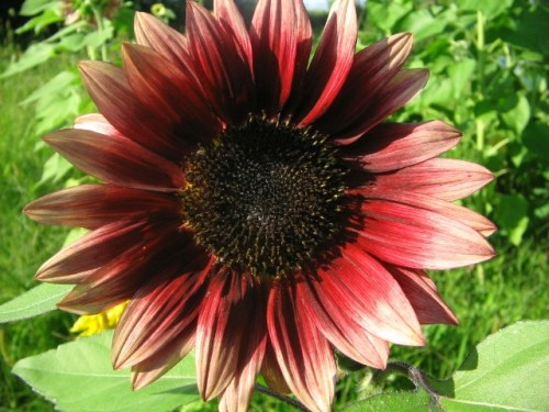 sunflowers